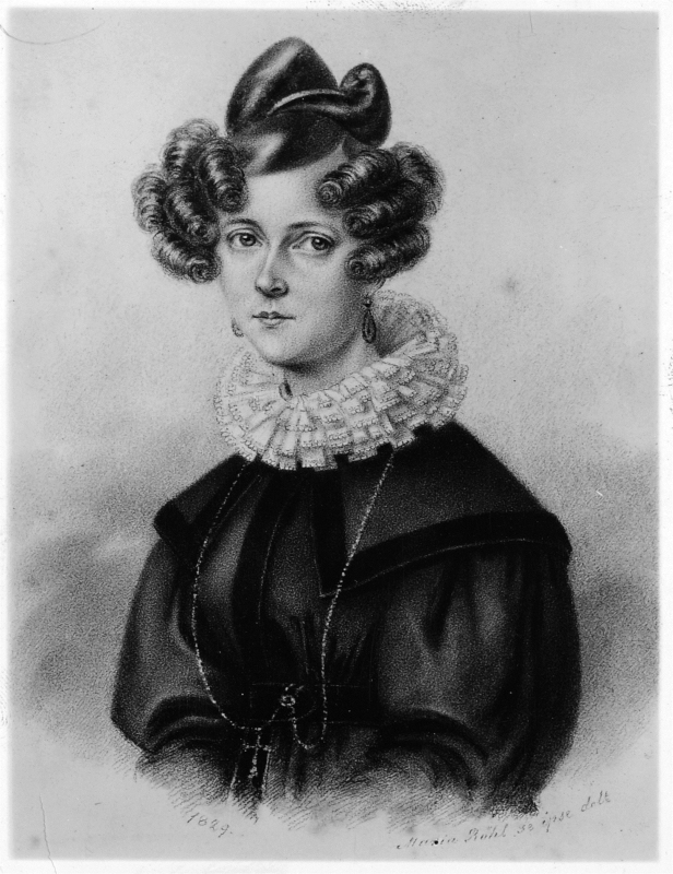 Self-portrait in black crayon